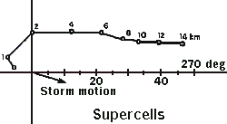 a hodograph of a supercell favorable environment